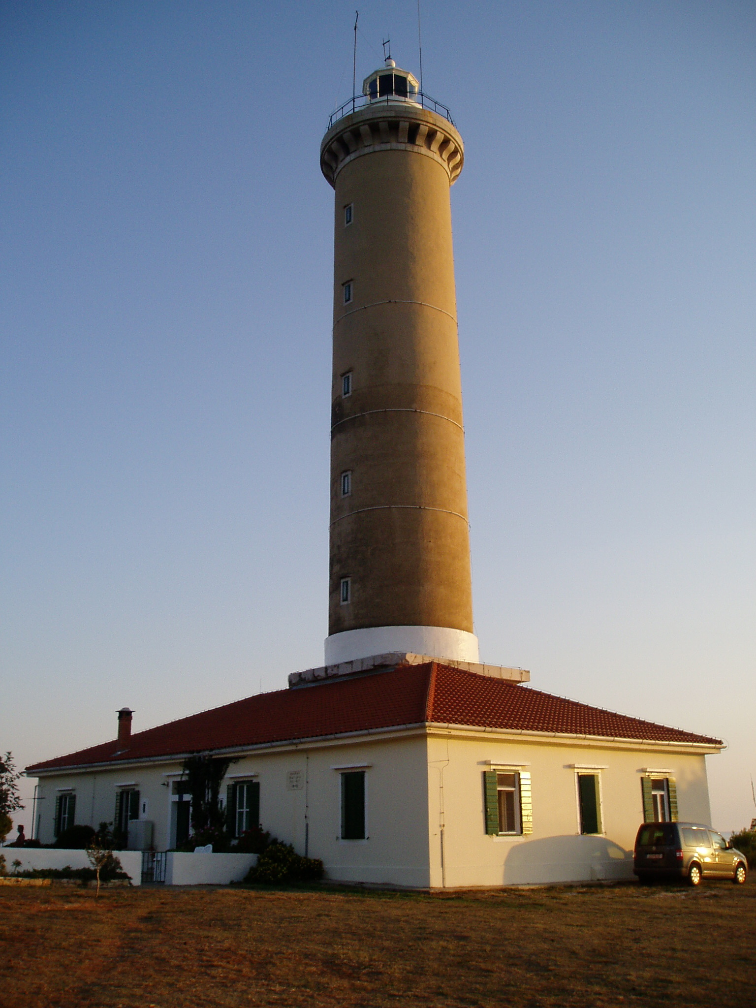 Is that a sunset or sunrise?